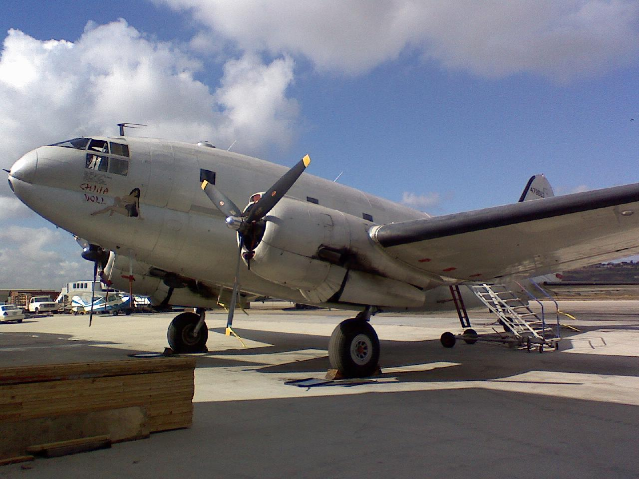 Curtiss-Wright C-46 Commando (C-46-F model), "China Doll", Commemorative Air Force Southern California Wing, Camarillo, California, USA